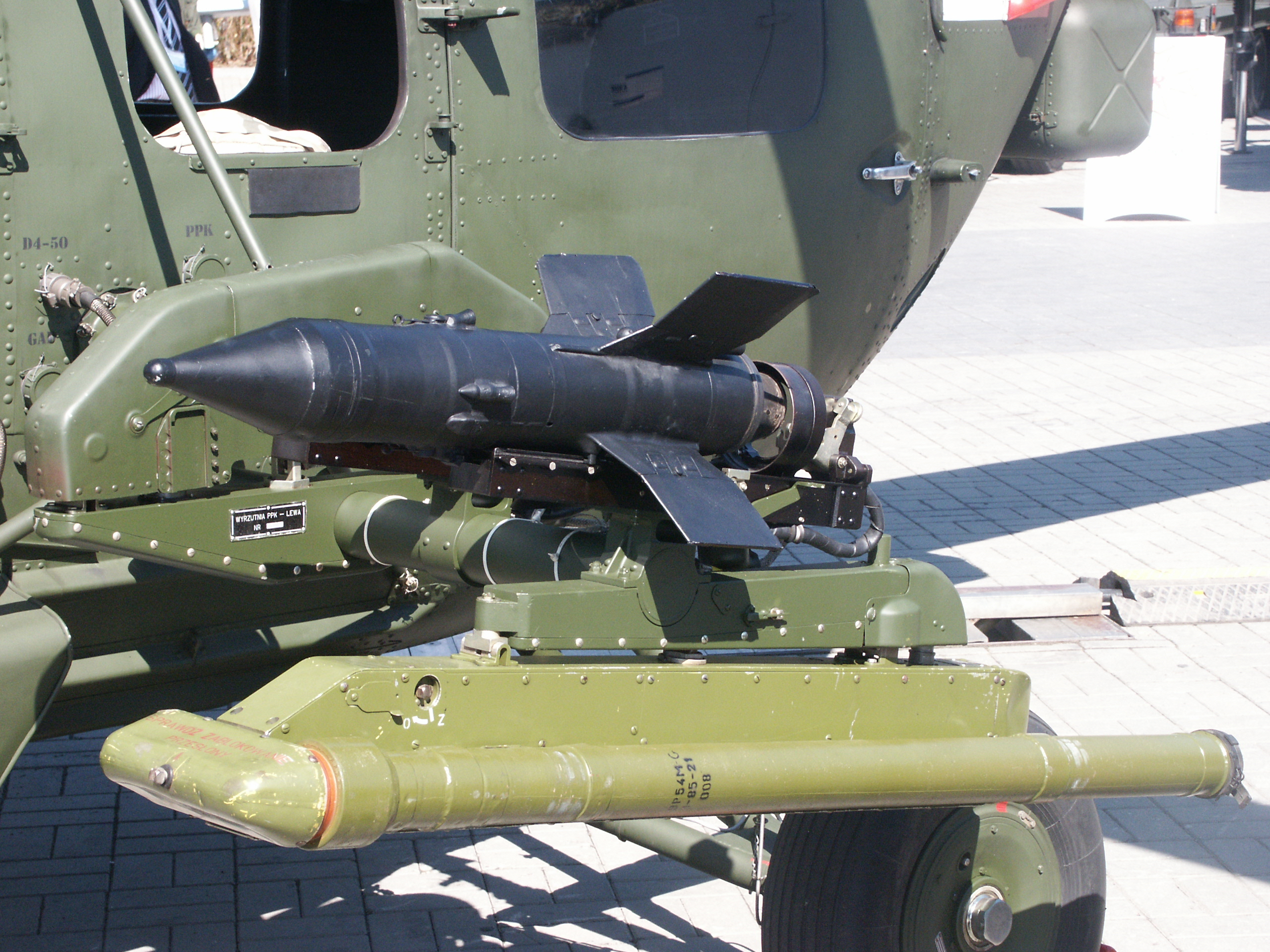 Polish attack helicopter Mil Mi-2URP-G - 9M14 Malutka (AT-3) AT-missile and Strela-2 AA missiles.